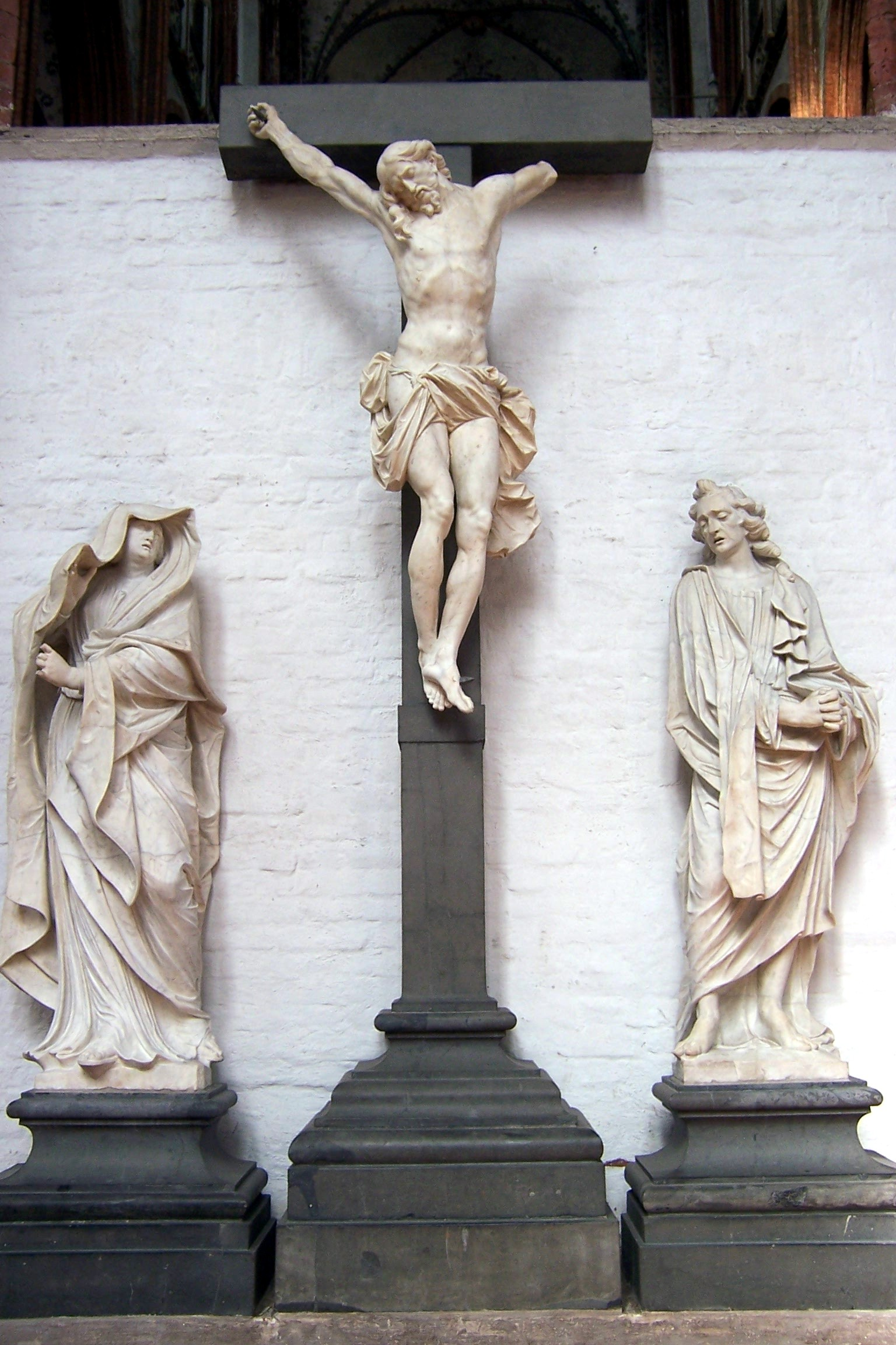 Crucifixion (central zone) fragment of the Fredenhagenaltar (1697, damaged 1942, dismantled 1958) by Thomas Quellinus (1661-1709) in the Marienkirche, Lübeck